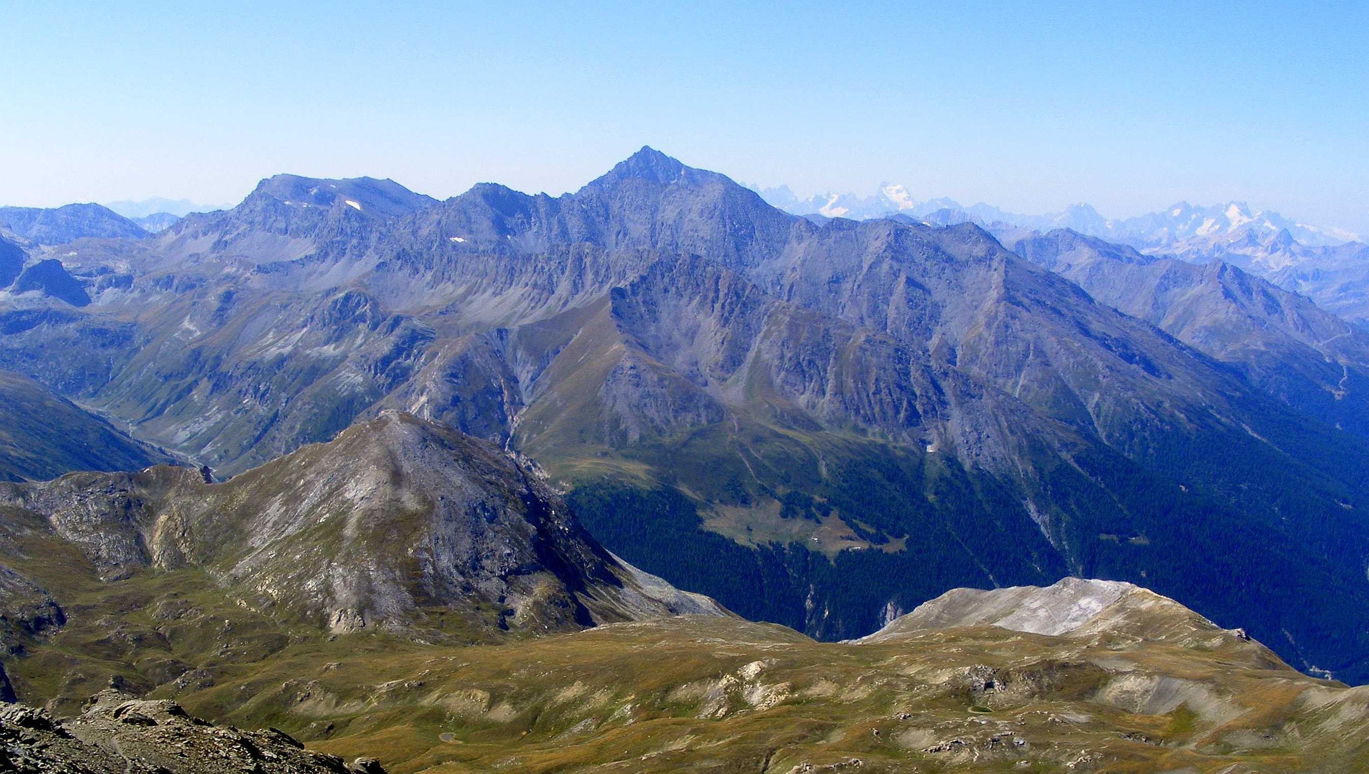 Pierre Menue's mountain group (Cottian Alps) from Punta Clairy; on the foreground Bellecombe point